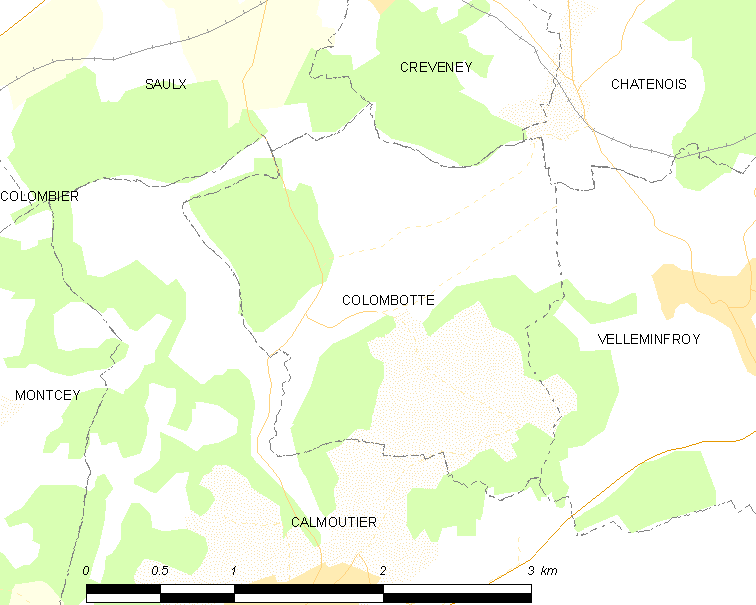 Map of French municipality